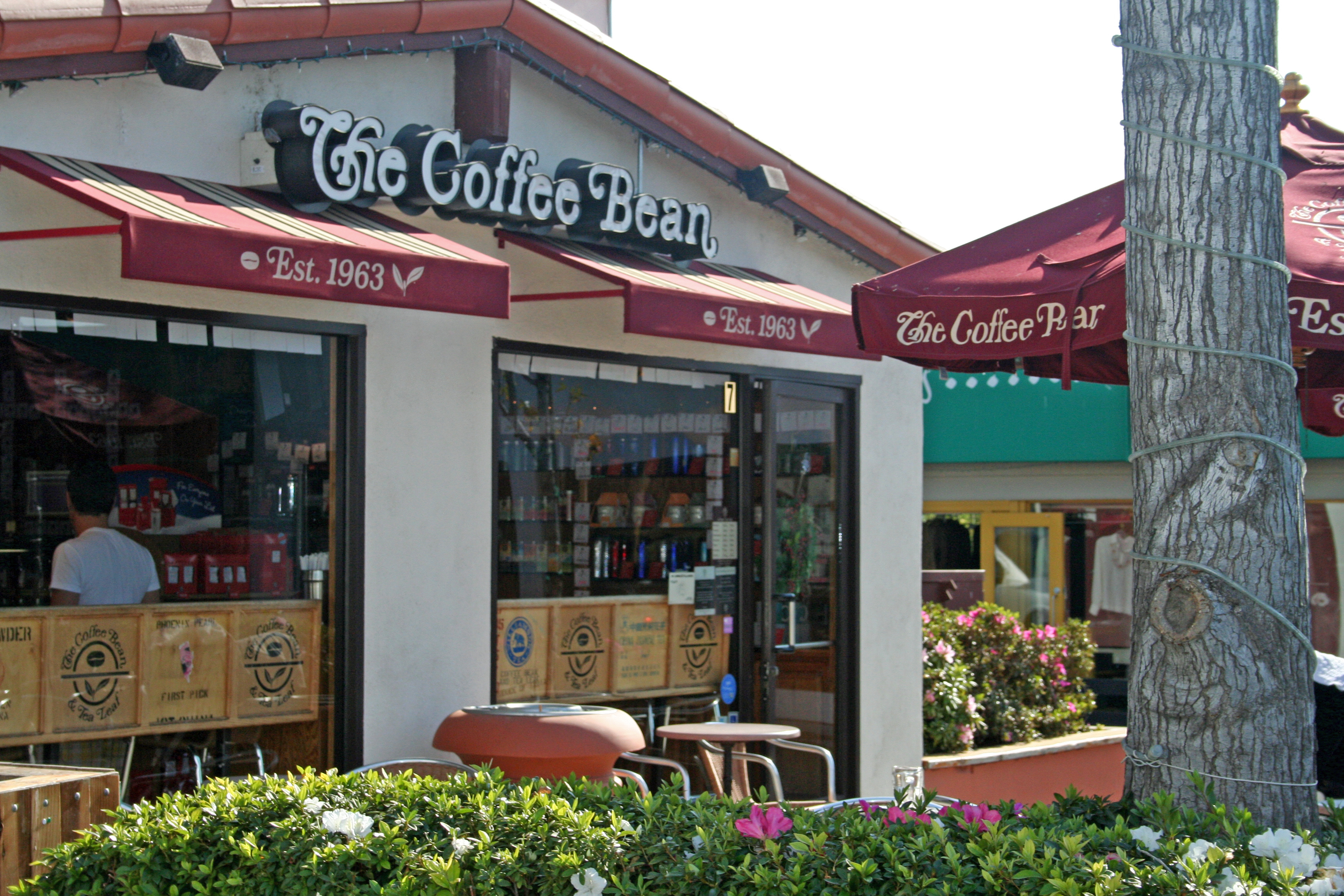 Coffee Bean